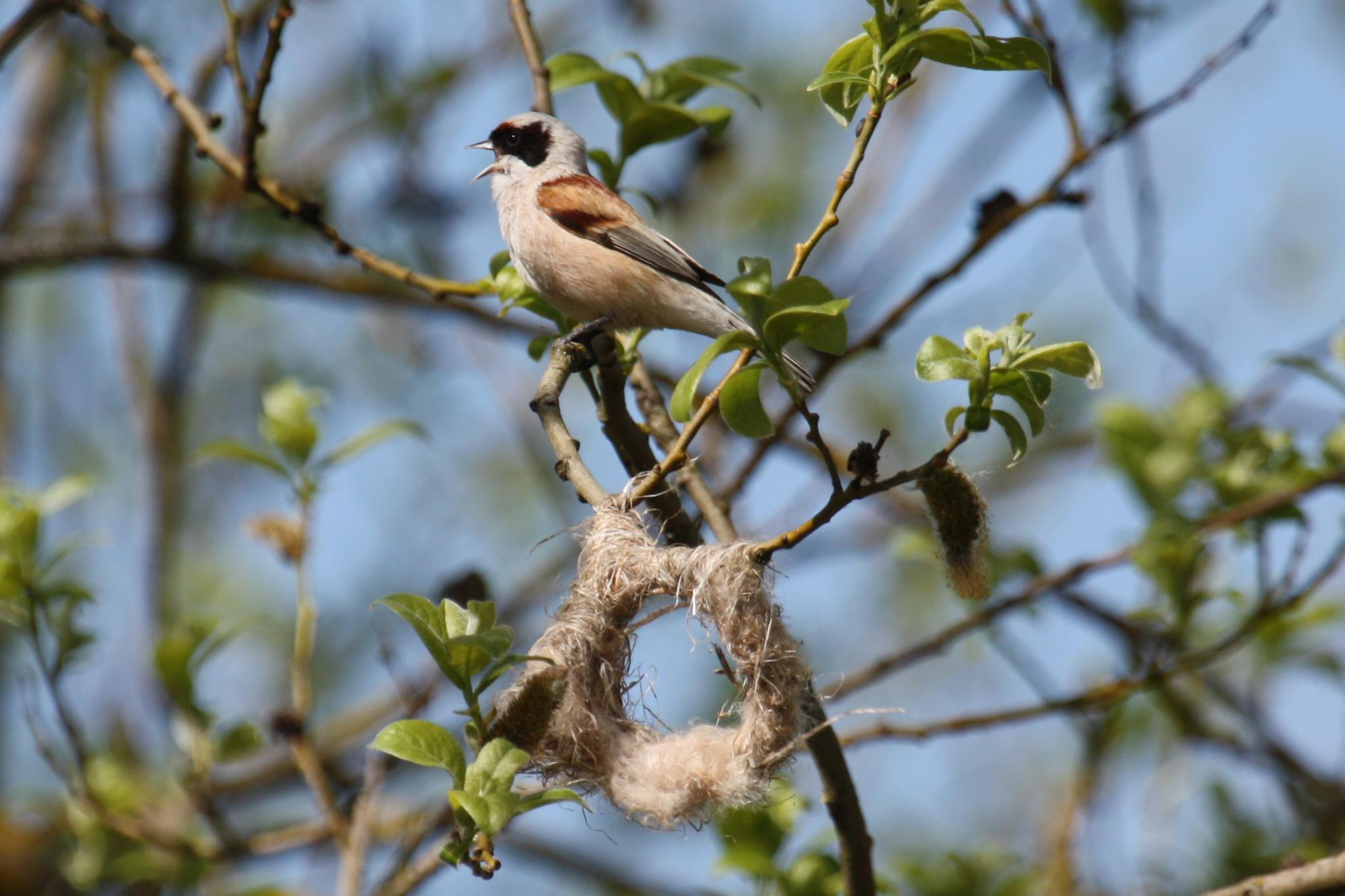 A European Penduline Tit in Estonia. When the photographer first noticed this bird, the nest consisted of only the top bit where it attaches to the branch. An hour later he had made a complete circle. Here he's taking a little break to sing.